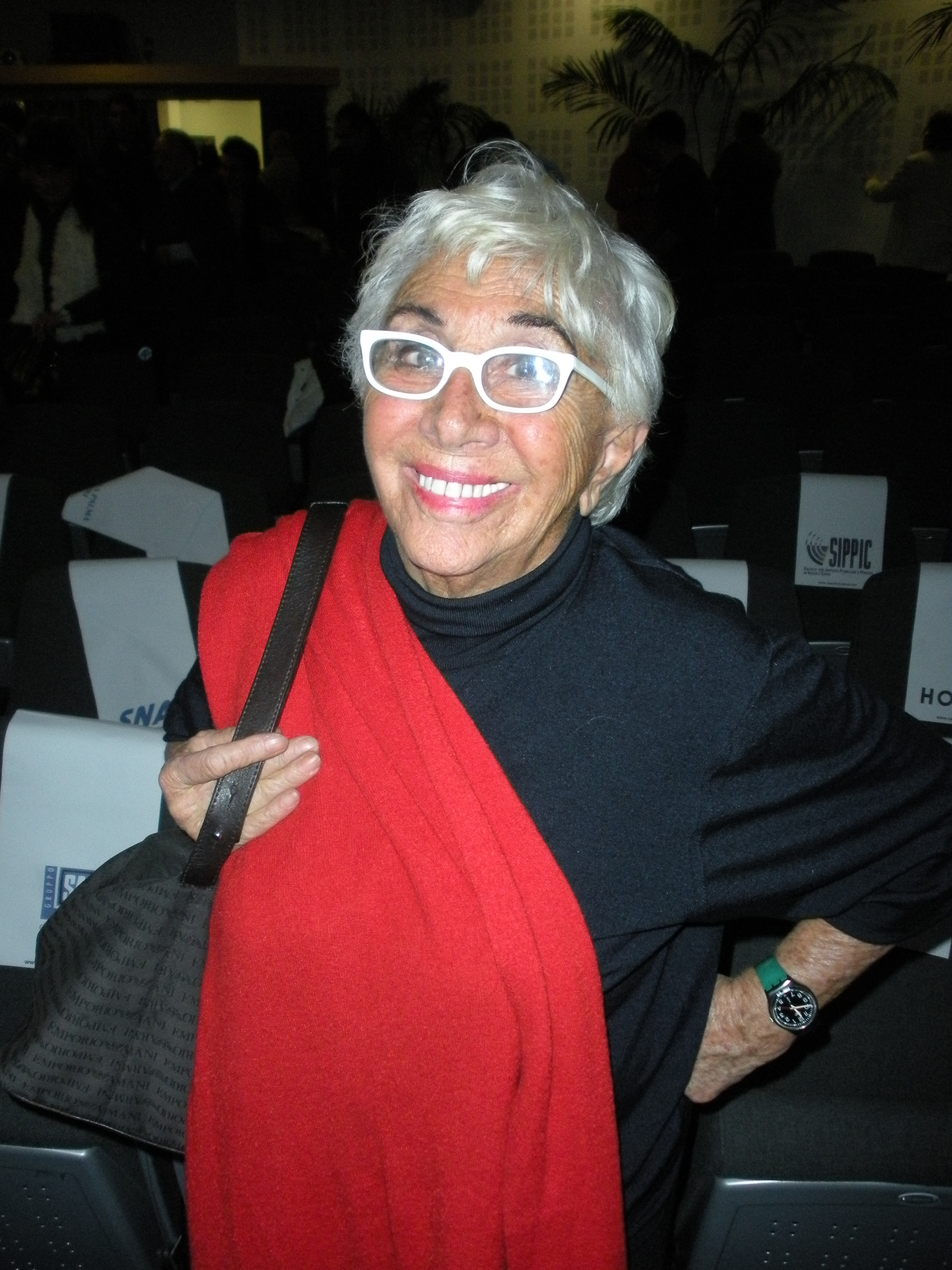 Lina Wertmüller, Italian film director.